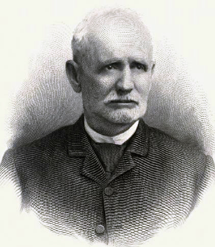 Eli T. Stackhouse, US Representative from South Carolina